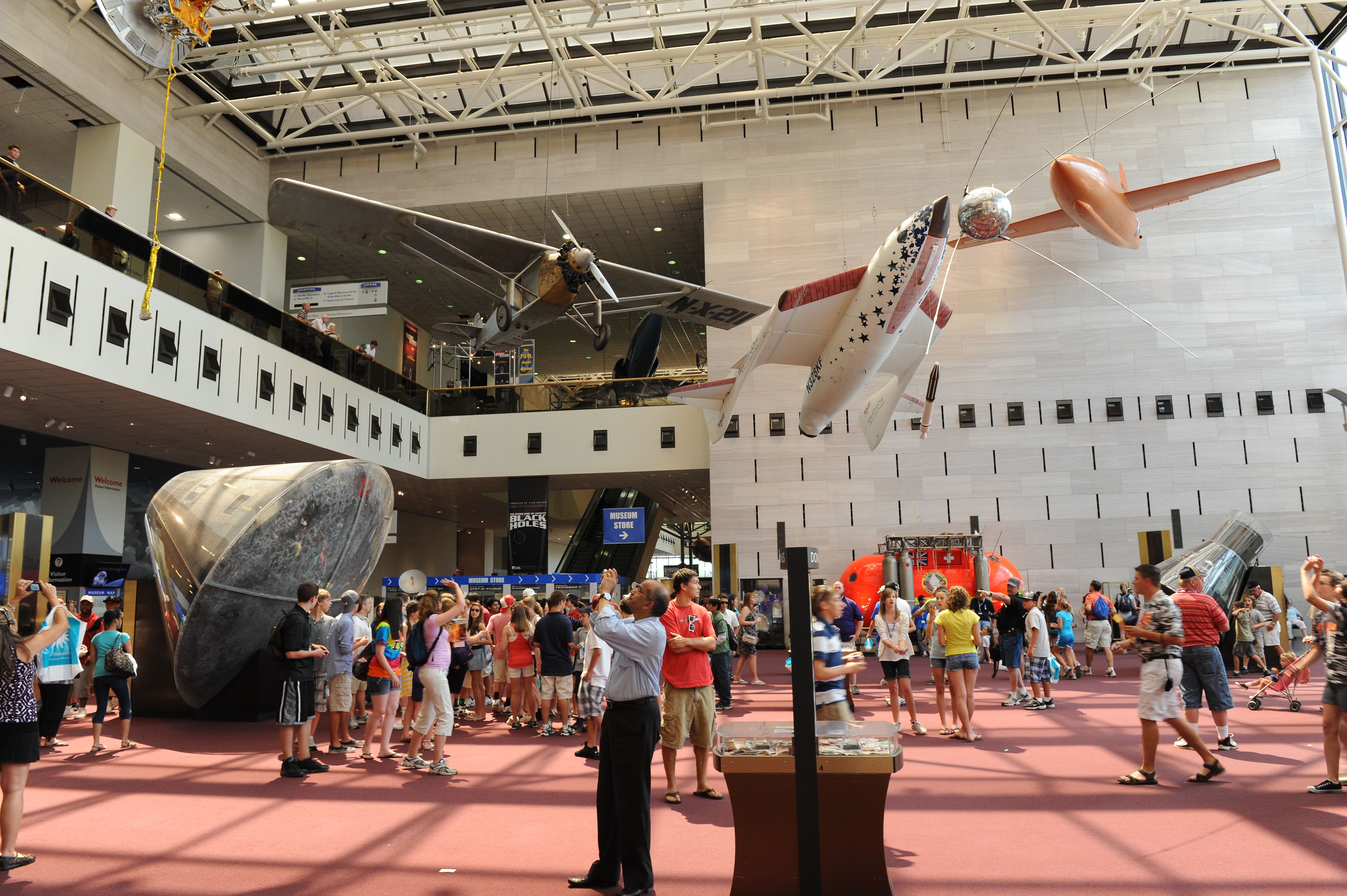 The entrance hall of the National Air and Space Museum in Washington, DC. Among the visible aircraft are Spirit of The St. Louis, the Apollo 11 command module, Space Ship One, and X-1.